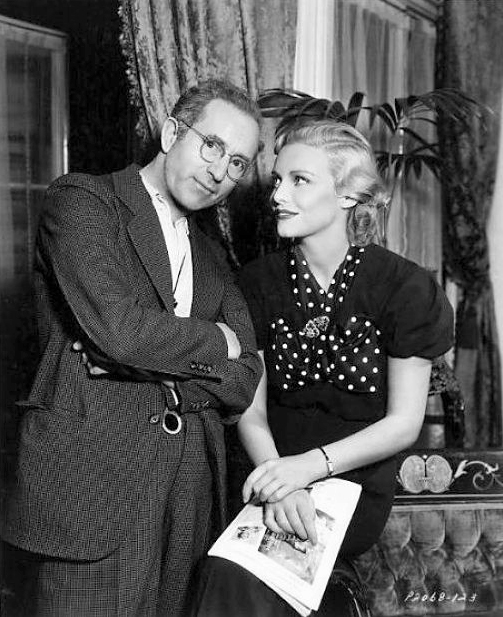 Victor Milner (cinematographer) and Madeleine Carroll on the set of The General Died at Dawn (1936) - publicity still.